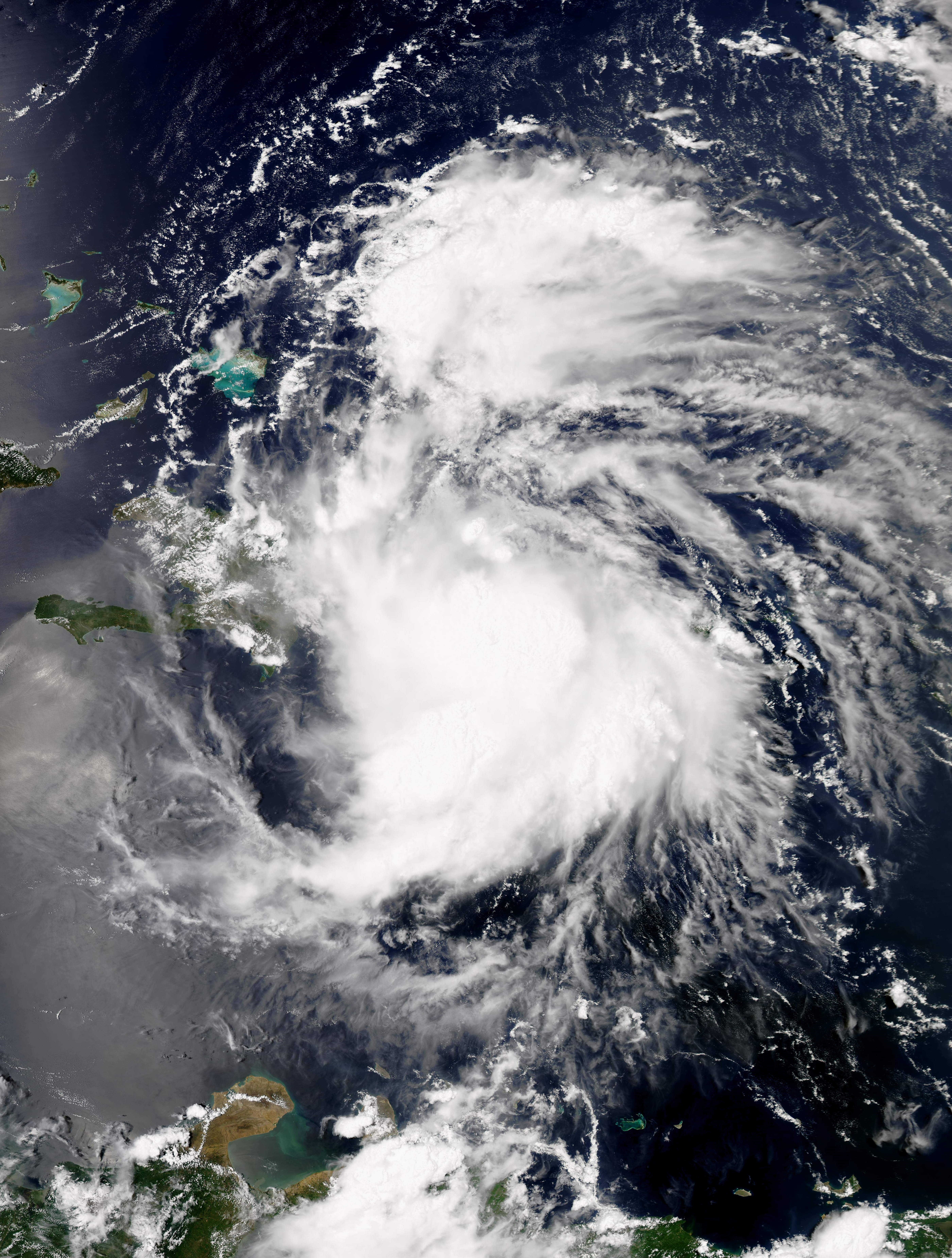 Tropical Storm Fay (2008) as seen from Aqua Satellite on 2008-08-15